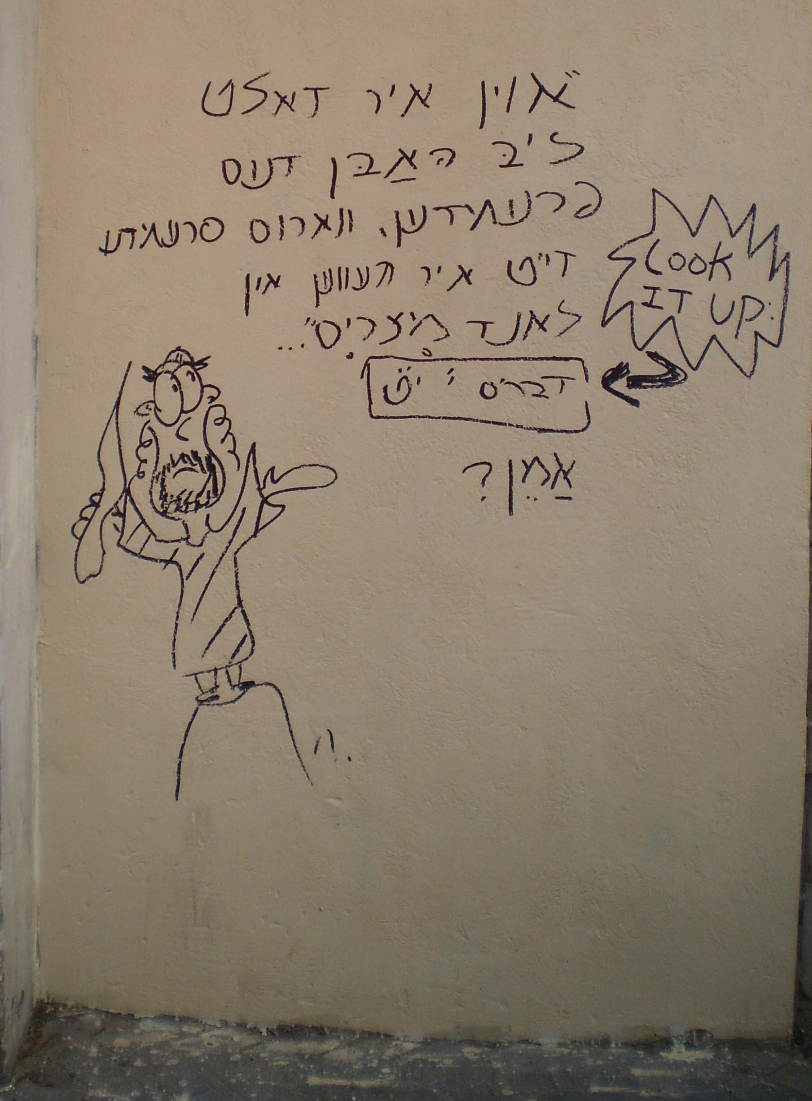 A graffiti in Yiddish, Washington avenue, Tel Aviv. "Thou shalt neither vex a stranger, nor oppress him: for ye were strangers in the land of Egypt (Exodus 22:21) Amen?"